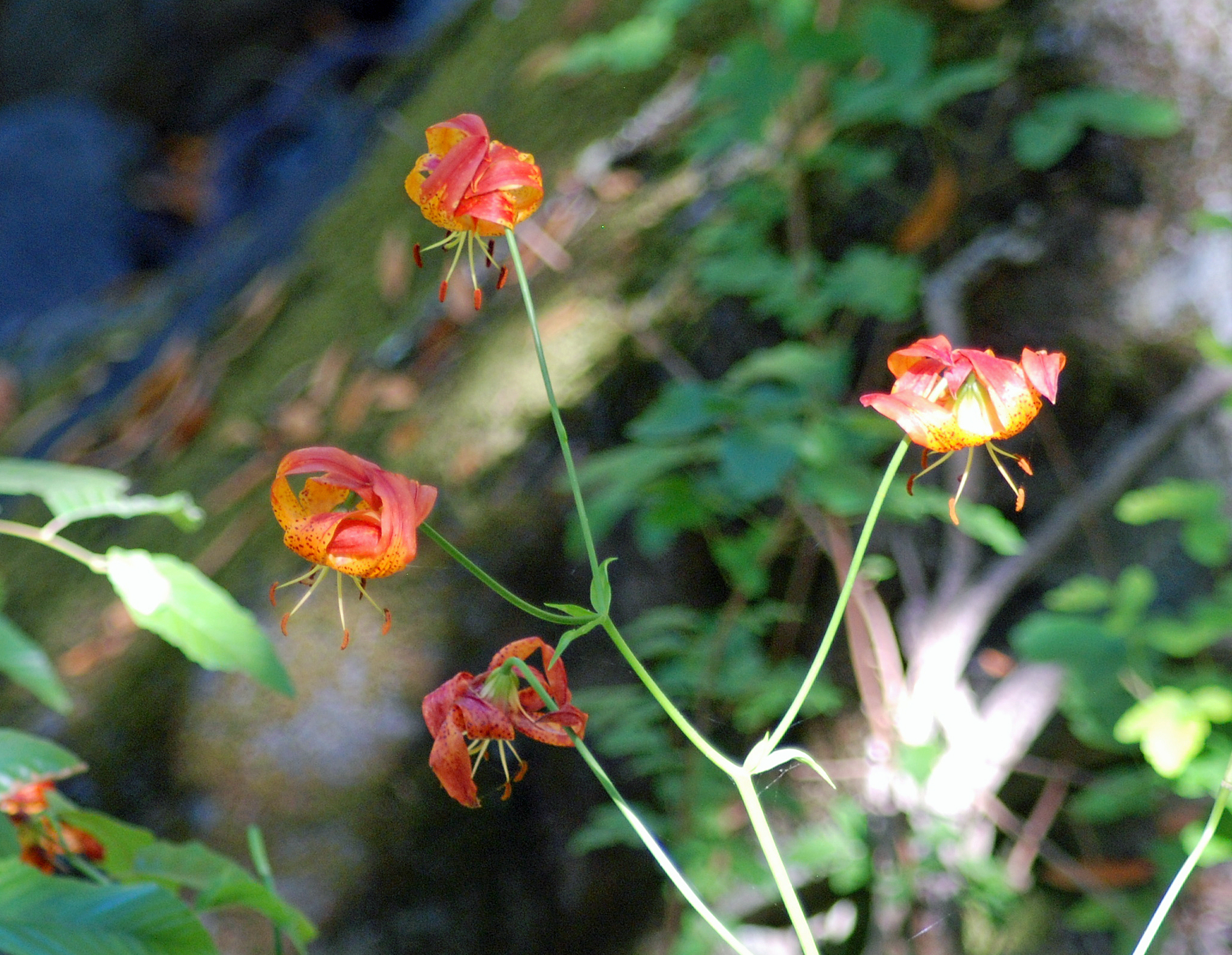 Lilium columbianum — Columbia Tiger Lily. Growing on banks of San Francisquito Creek in Jasper Ridge Biological Preserve, Stanford, San Mateo County, California. Image: 7/22/2011.